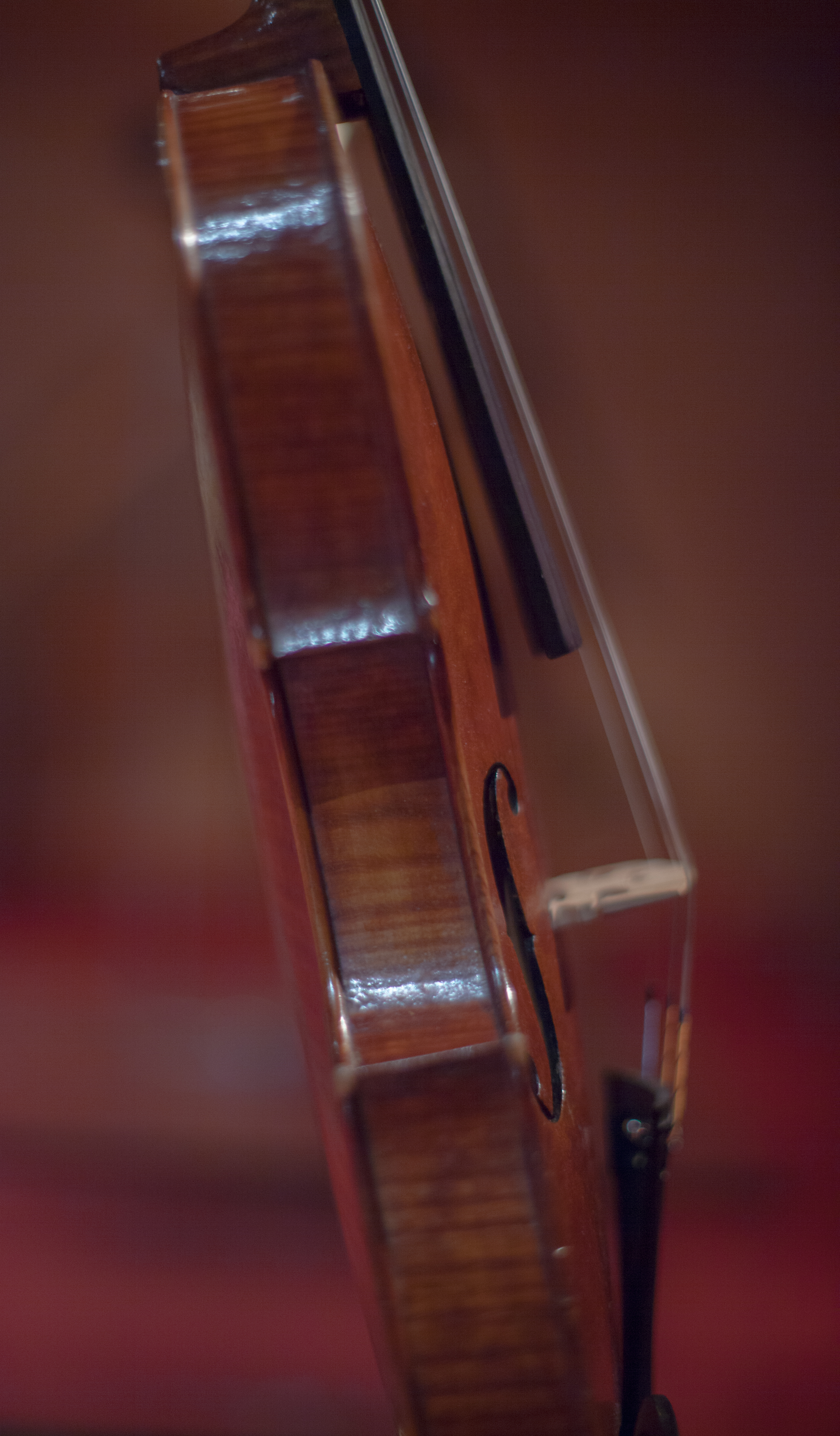 Detail of a violin's rib